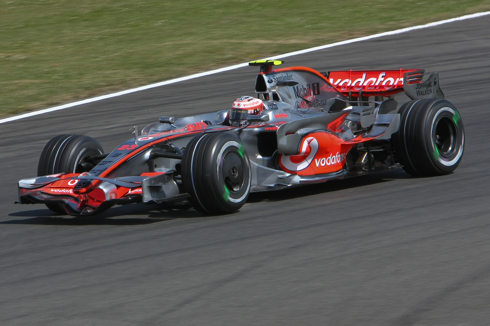 Heikki Kovalainen driving for McLaren at the 2008 British Grand Prix.